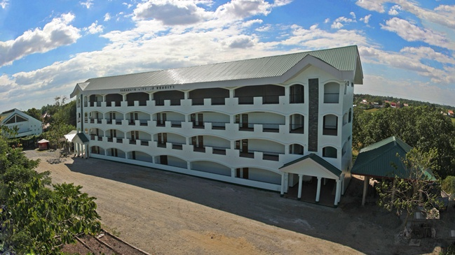 4-storey building with College of Law, SPED, Museum and AVR2